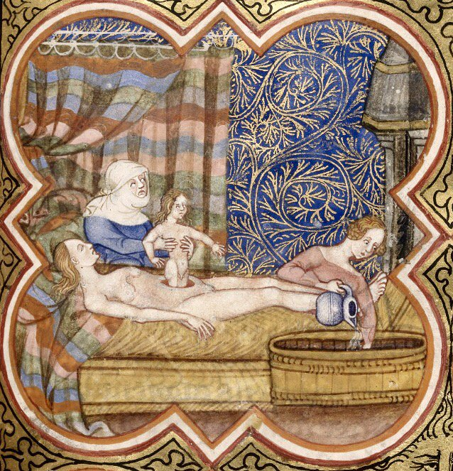 Birth of Caesar, British Library medieval manuscript, Royal 16 G VII, 14th c.